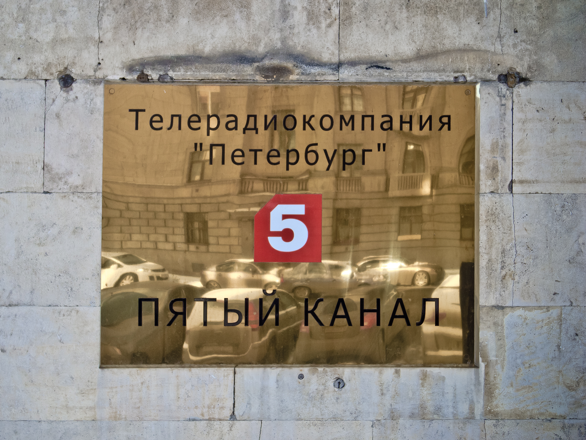 Television Broadcasting Center of Saint Petersburg. "Petersburg - 5th Channel" Broadcasting Company headquarters. Chapygina street, building 6. Signboard.